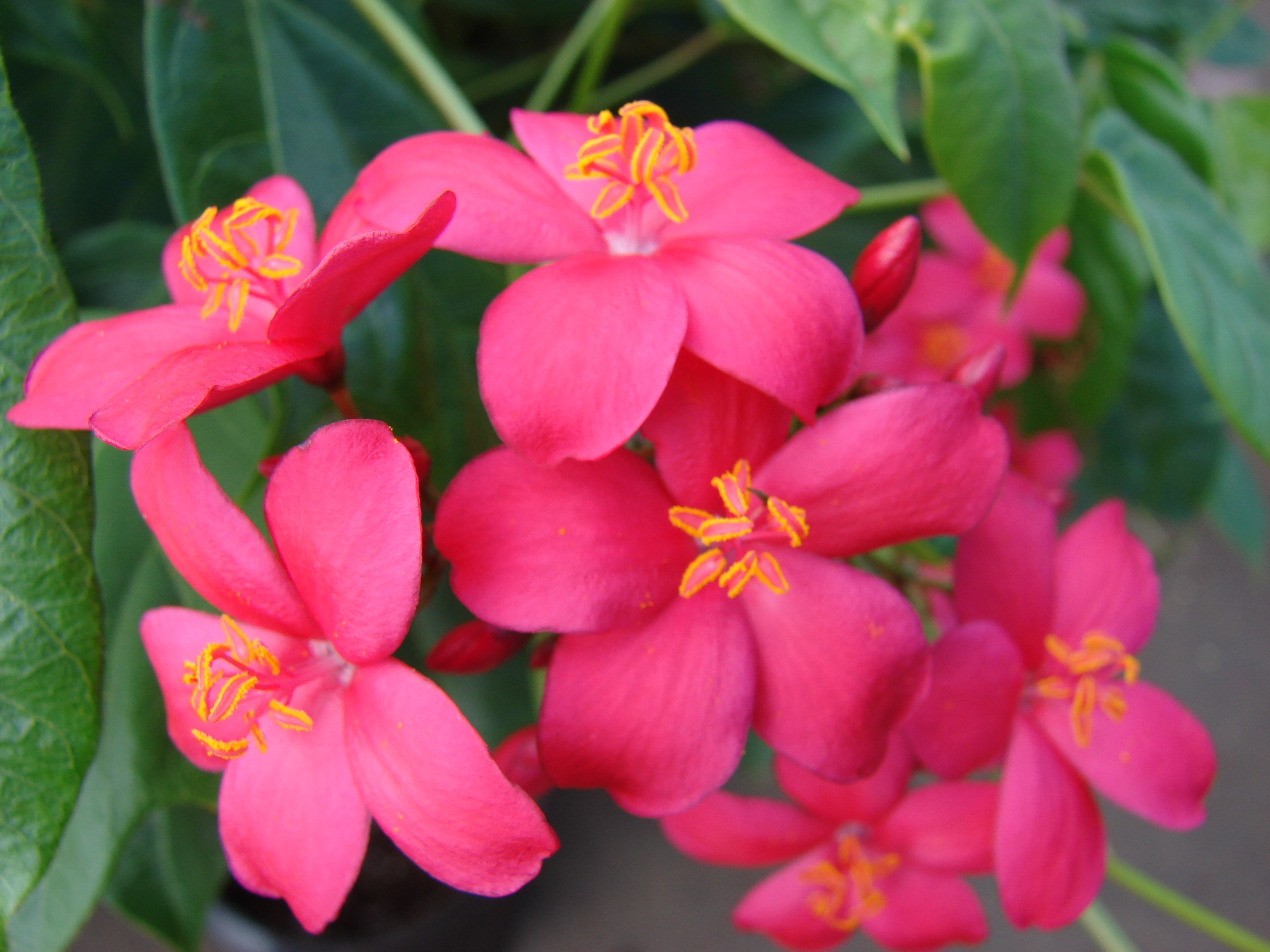 Jatropha integerrima (flowers). Location: Maui, Kula Ace Hardware and Nursery